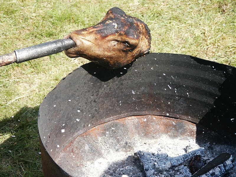 Smalahove (sheep's head), a delicacy in Western Norway.